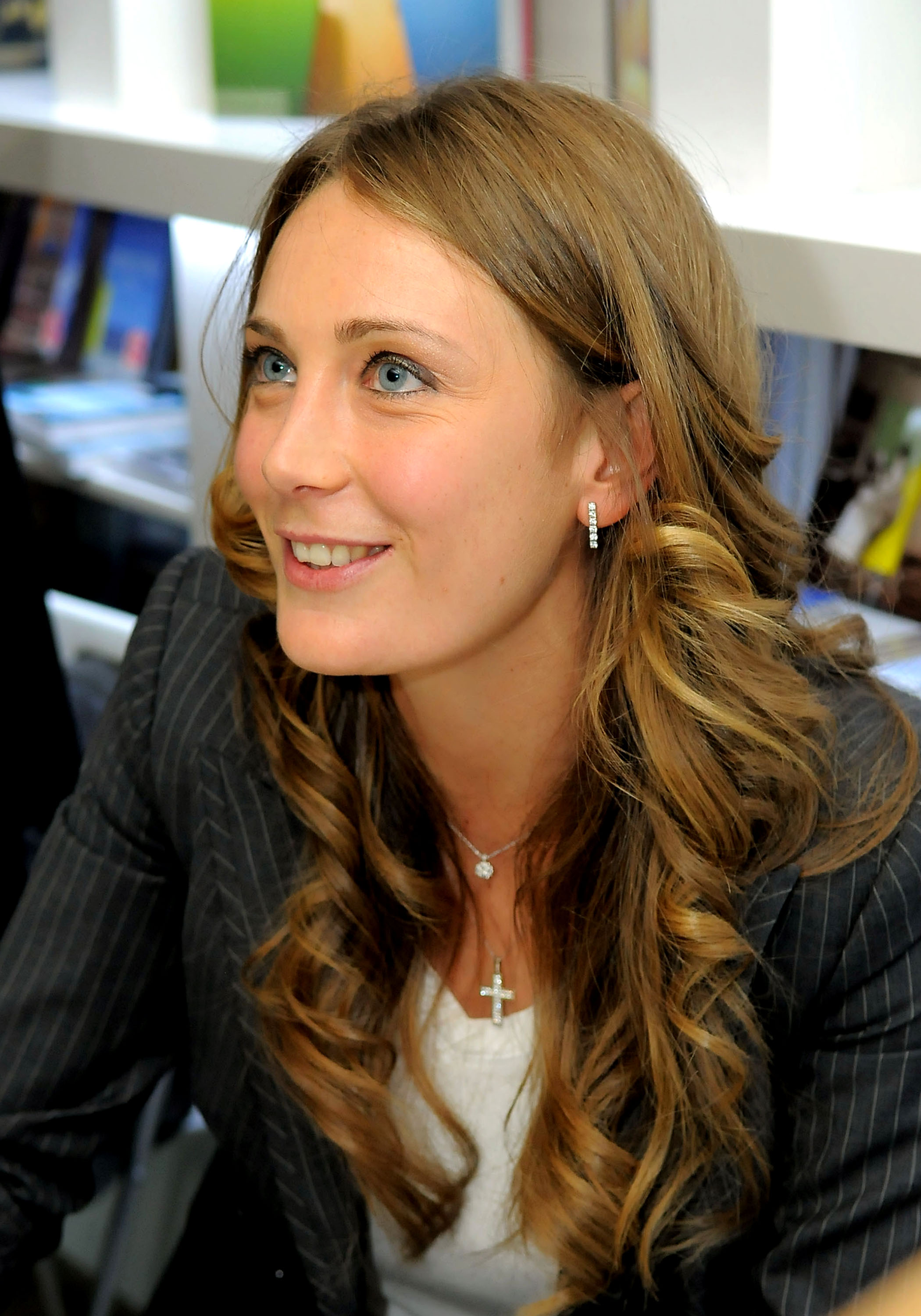 Mara Santangelo at the presentation of her book "I promise"